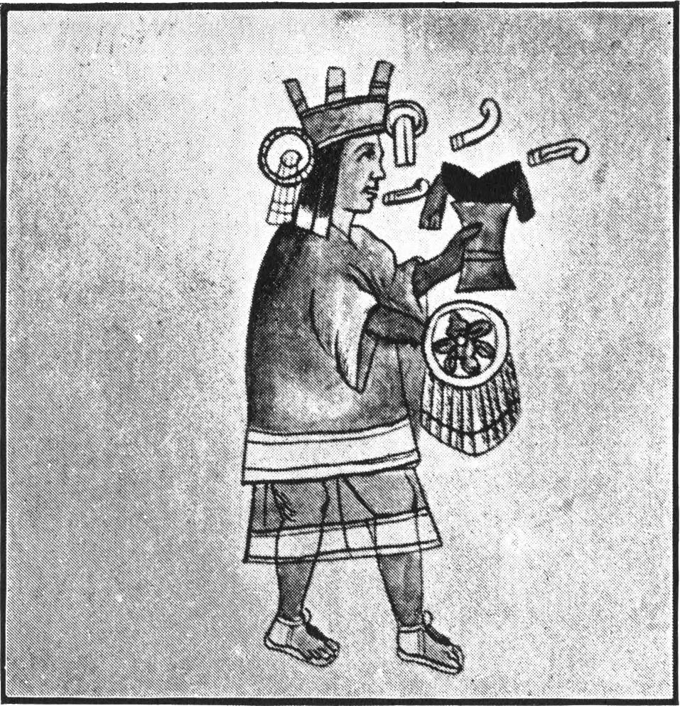 Chicomecoatl - Project Gutenberg eText 14993